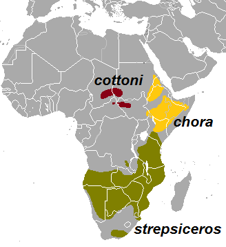 Range map of the Greater Kudu (Tragelaphus strepsiceros) with distinctive colors for the four subspecies (1) strepsiceros, (2) zambesiensis, (3) chora, and (4) cottoni